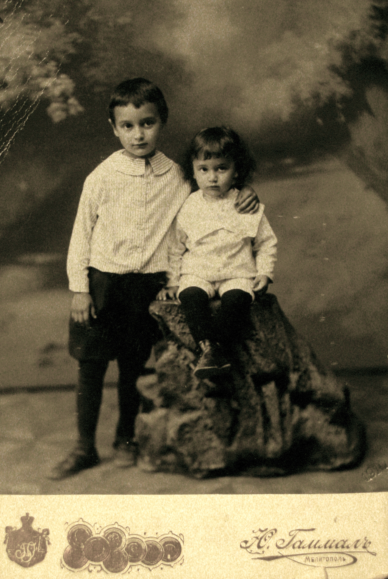 Mikhail Lifshitz with his brother, 1911.